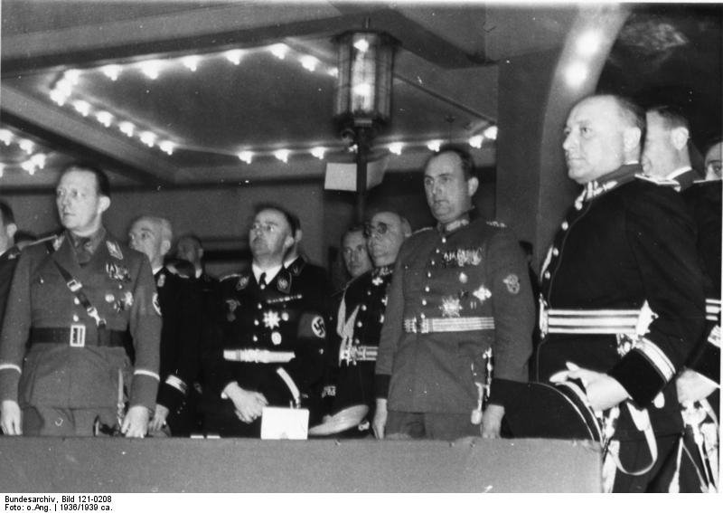 Information added by Wikimedia users.*